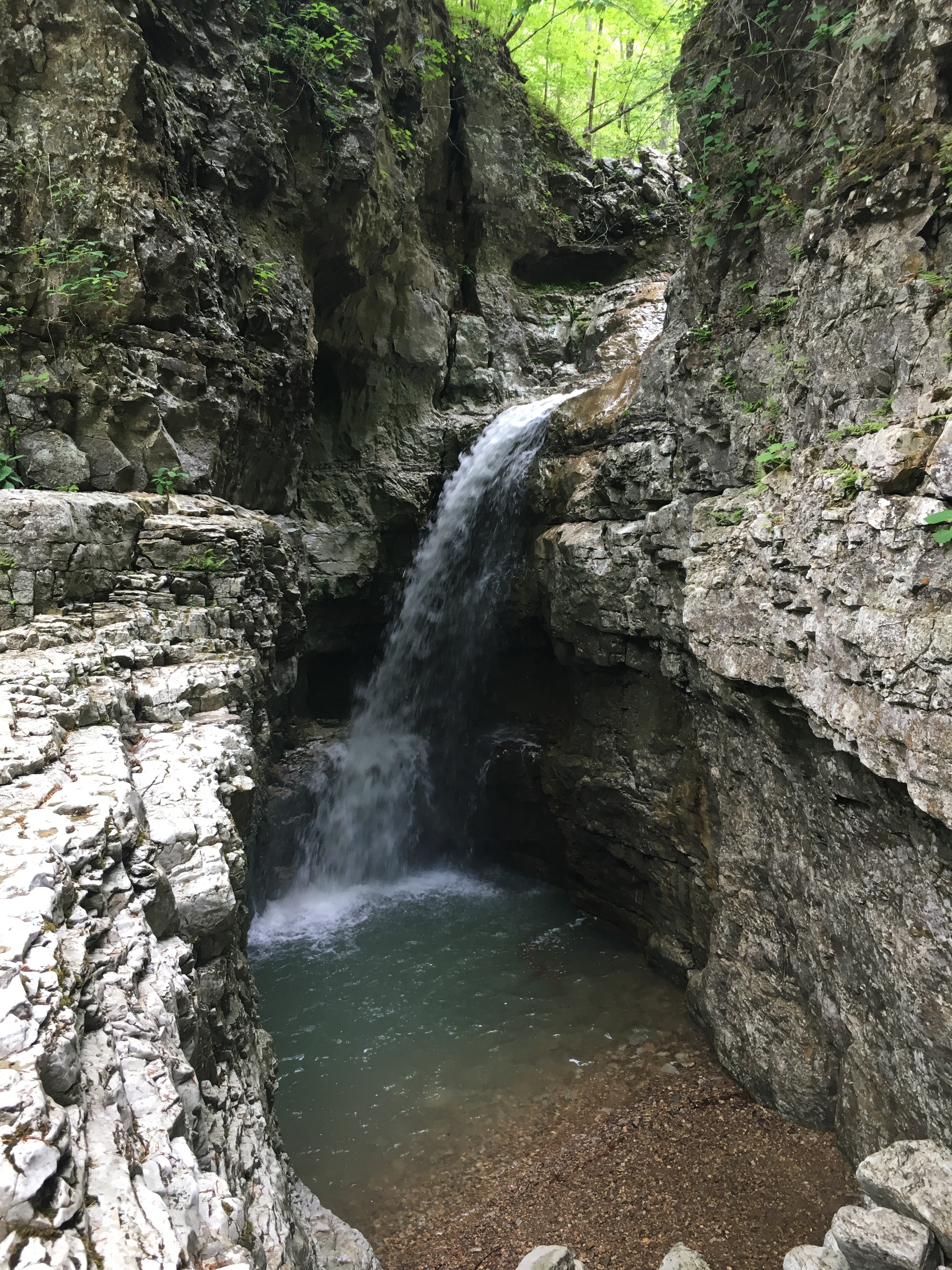 The waterfall on Turkey Creek at the Walls of Jericho in Tennessee